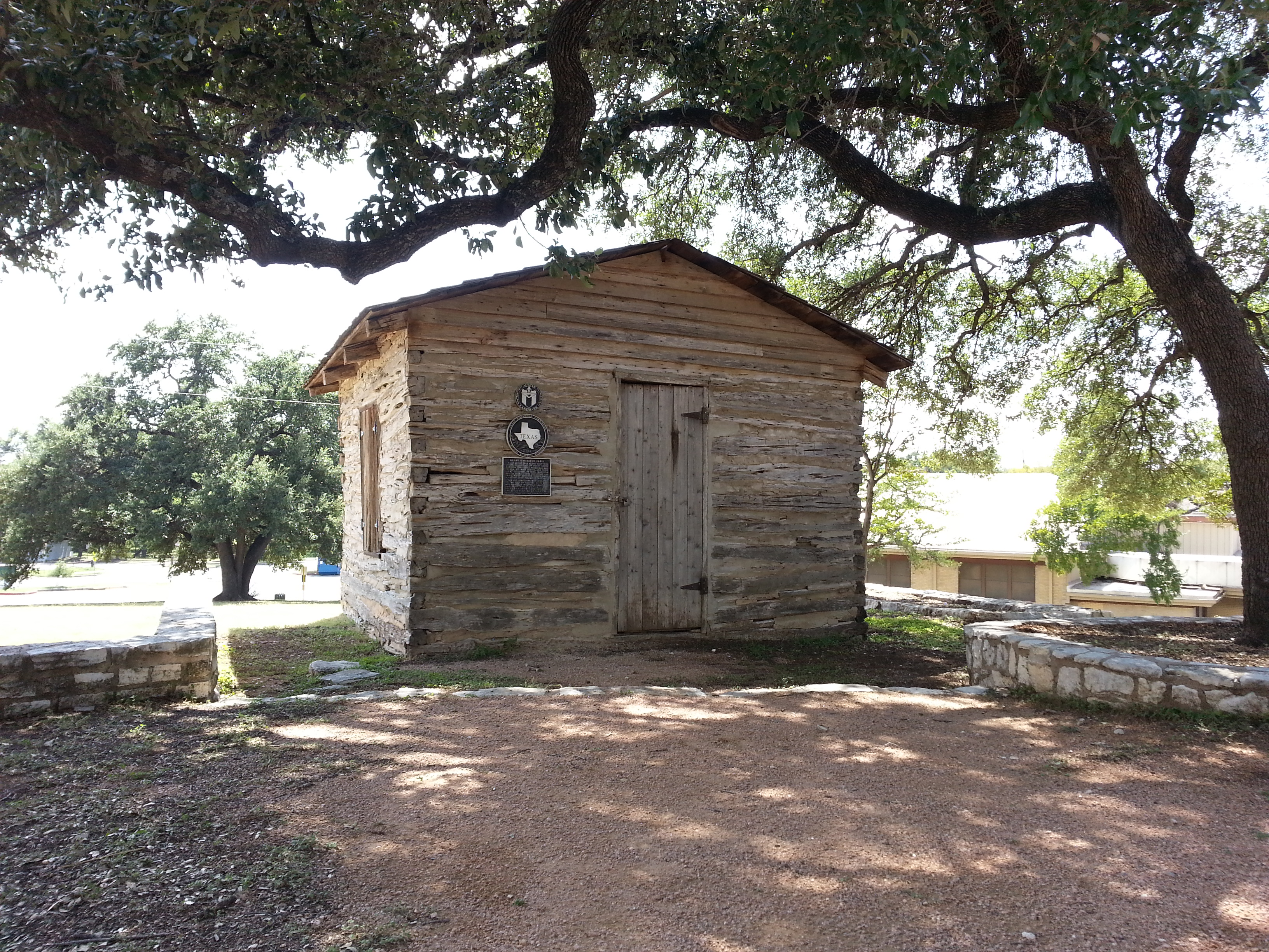 The original homestead cabin of Henry Green Madison, the first African-American city councilman in Austin, TX.